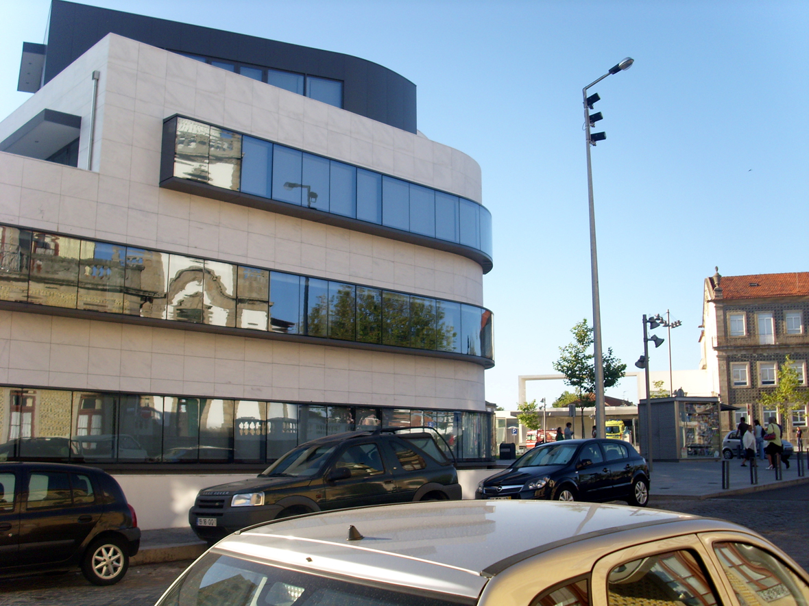 Headquarters of P.Varzim, V.Conde, Esposende CA Bank in Povoa de Varzim